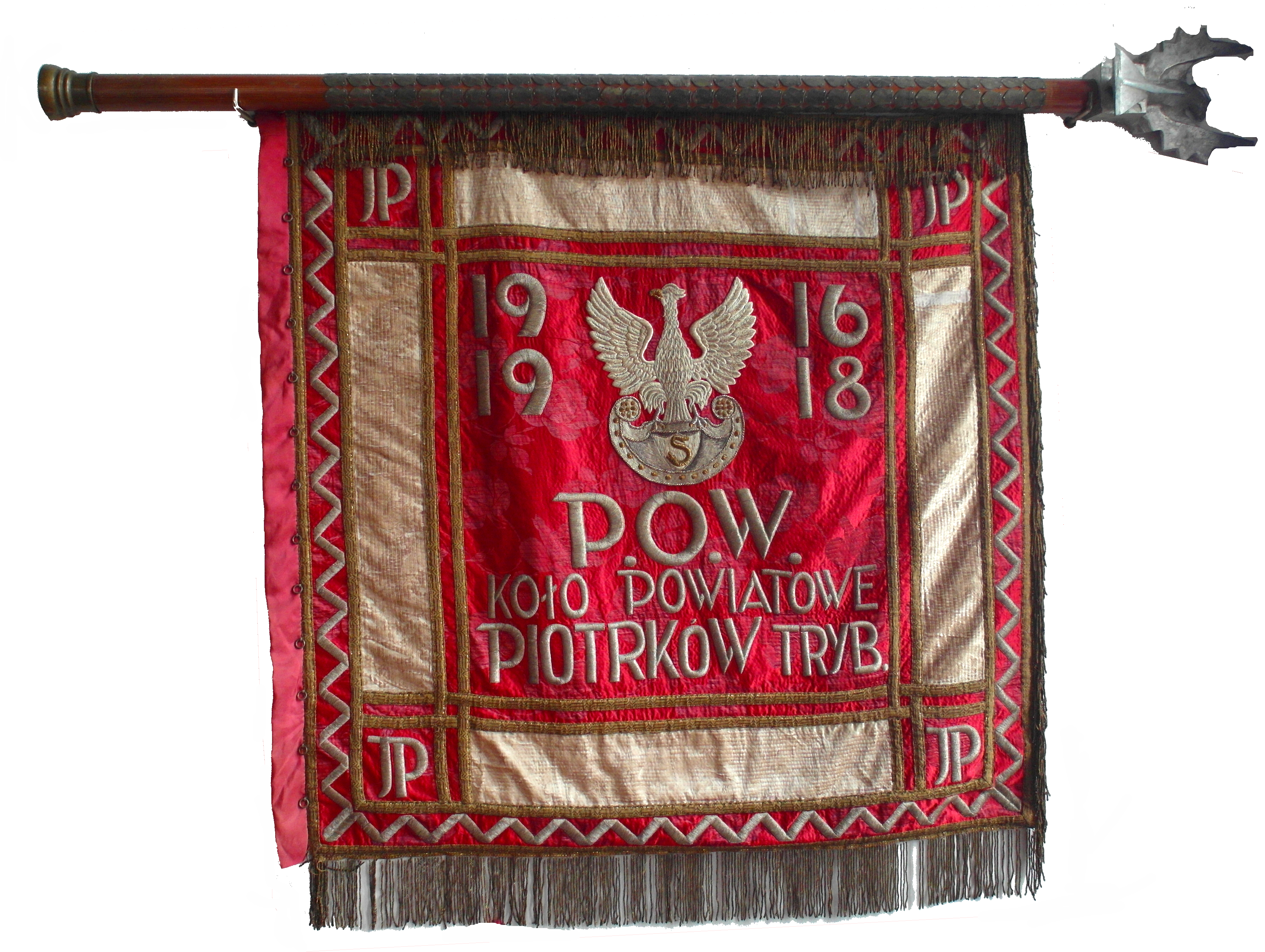 Flag of the Country Circle of the Polish Military Organization